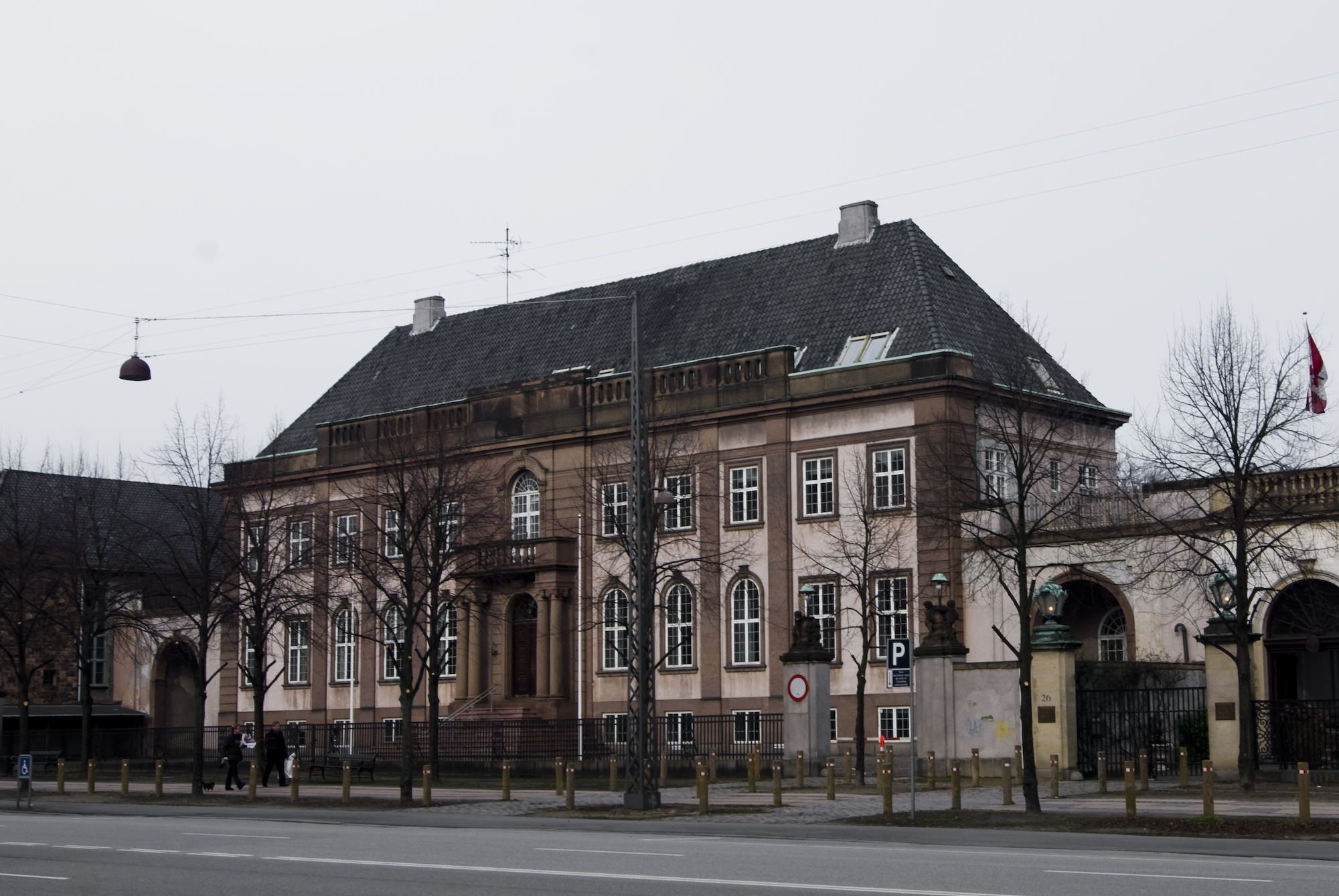 This buildin is canonically known as Lille Amalienborg (Small Amalienborg) - as opposed to the real Amalienborg. This photo was uploaded as a part of an conceptual idea: FindVej NoPic.